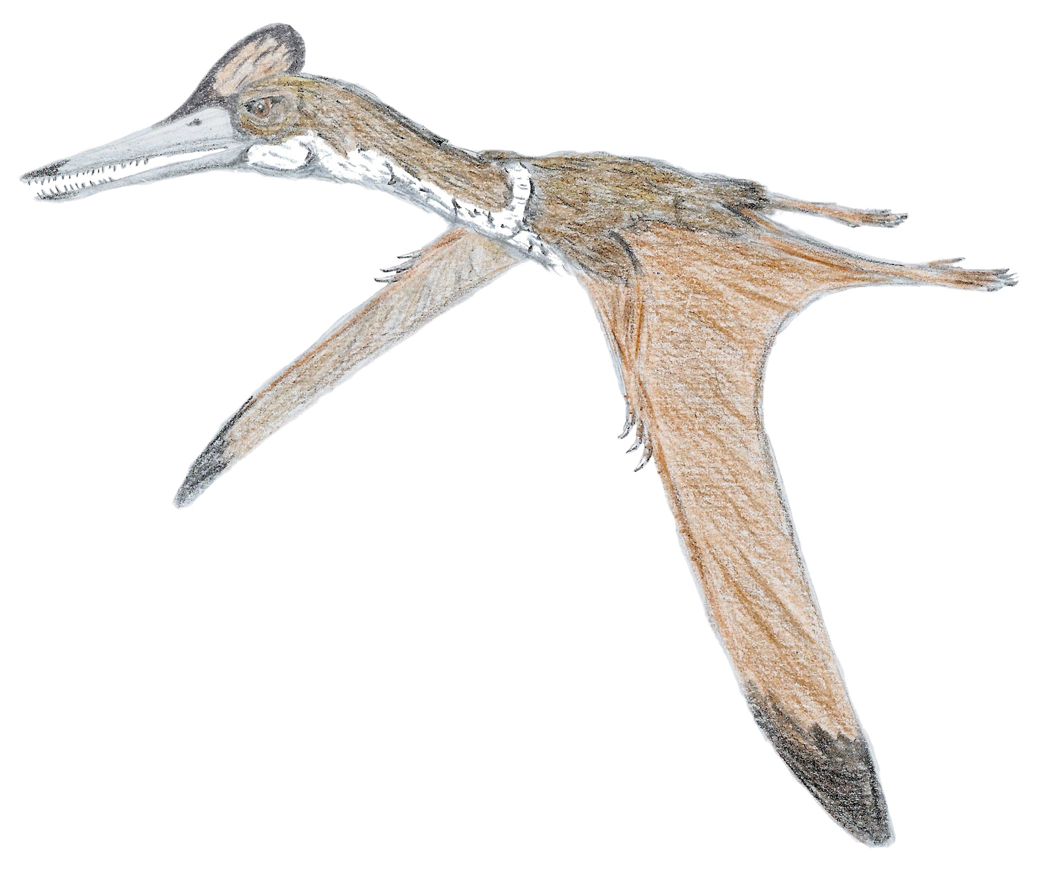 Life restoration of Kryptodrakon progenitor, a pterosaur that lived in western China 160 mya